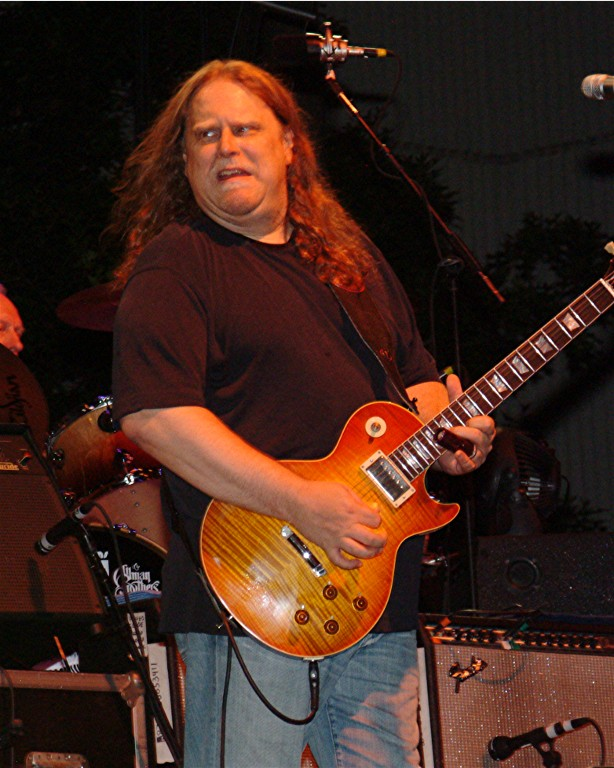 Warren Haynes in concert at City Stages in Birmingham, Alabama.